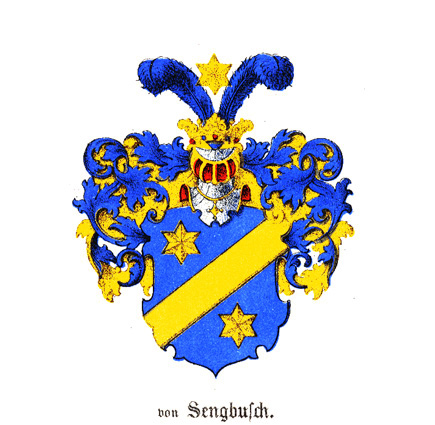 Sengbusch family arms